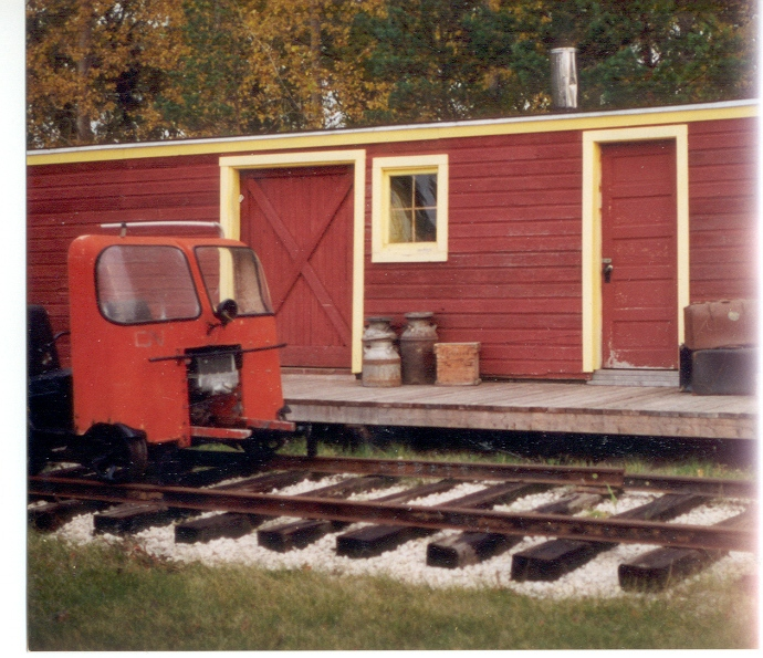 Former Canadian Northern Box Car, turned railway station